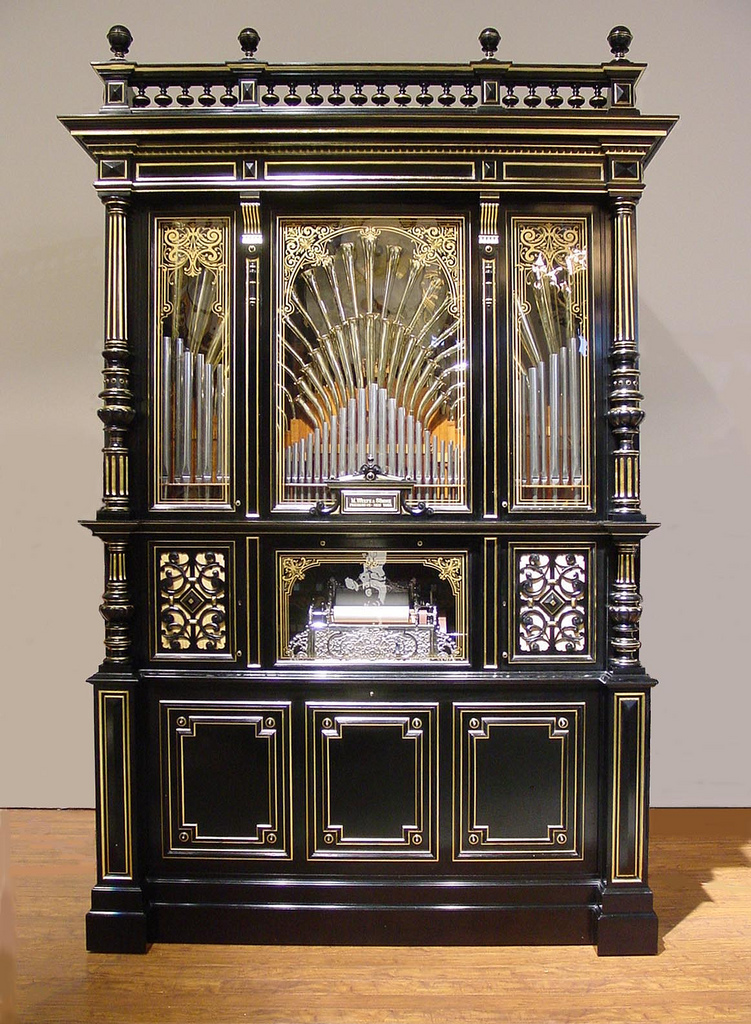 Welte Style #6 Concert Orchestrion No. 198 back from the dead.